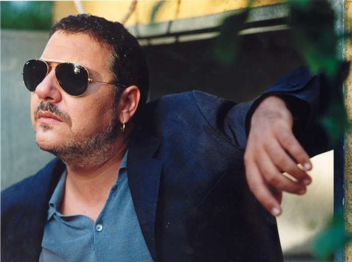 The singer Carlos Goñi in 2009.